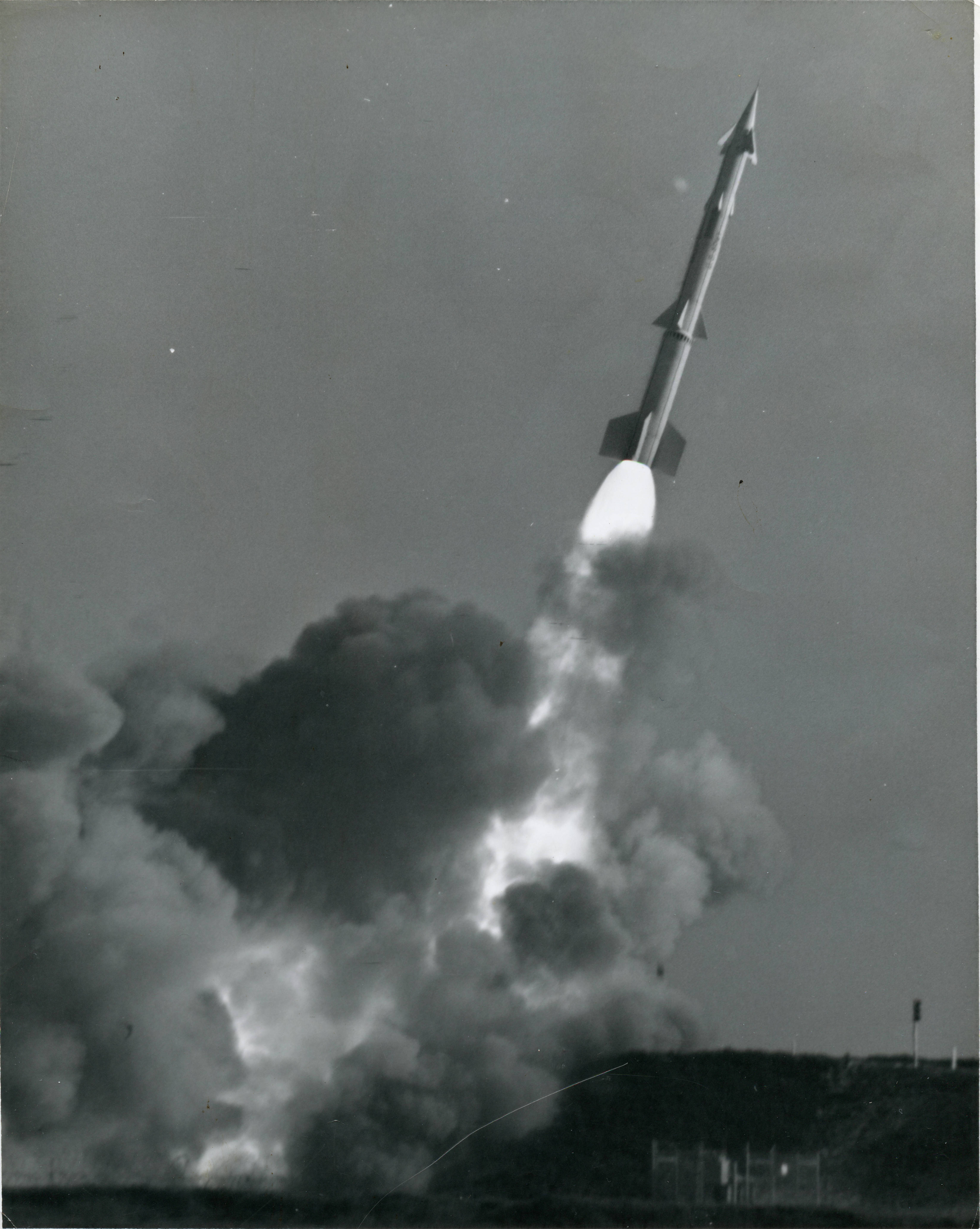 A Nike Zeus B missile is launched from the Pacific Missile Range at Point Mugu on 7 March 1962. This was the ninth launch of a Zeus from the Pt. Mugu site, today known as Naval Base Ventura County.